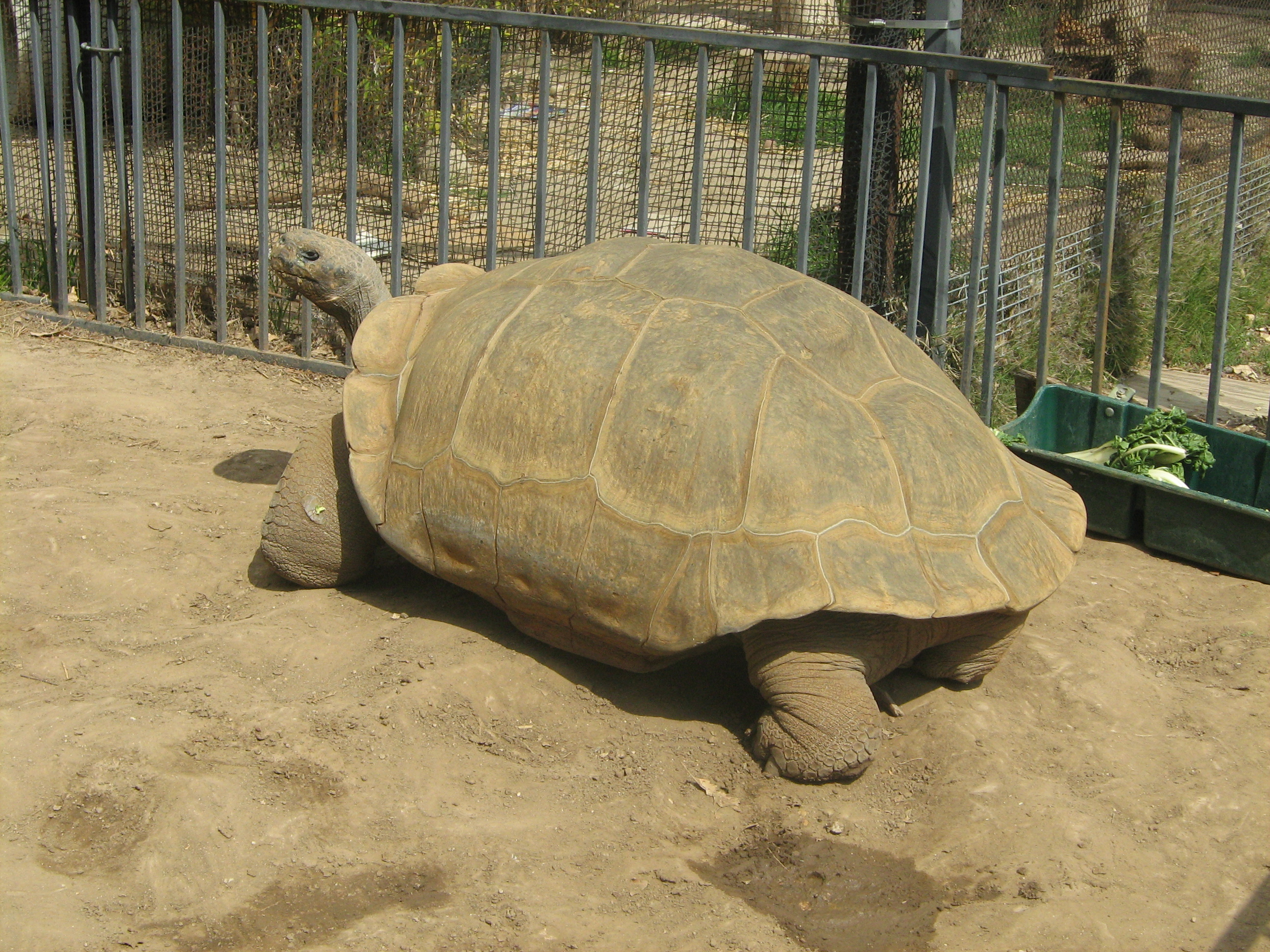 Clarence, the Galapagos tortoise, born 1923, photographed at America's Teaching Zoo at Moorpark College, California.